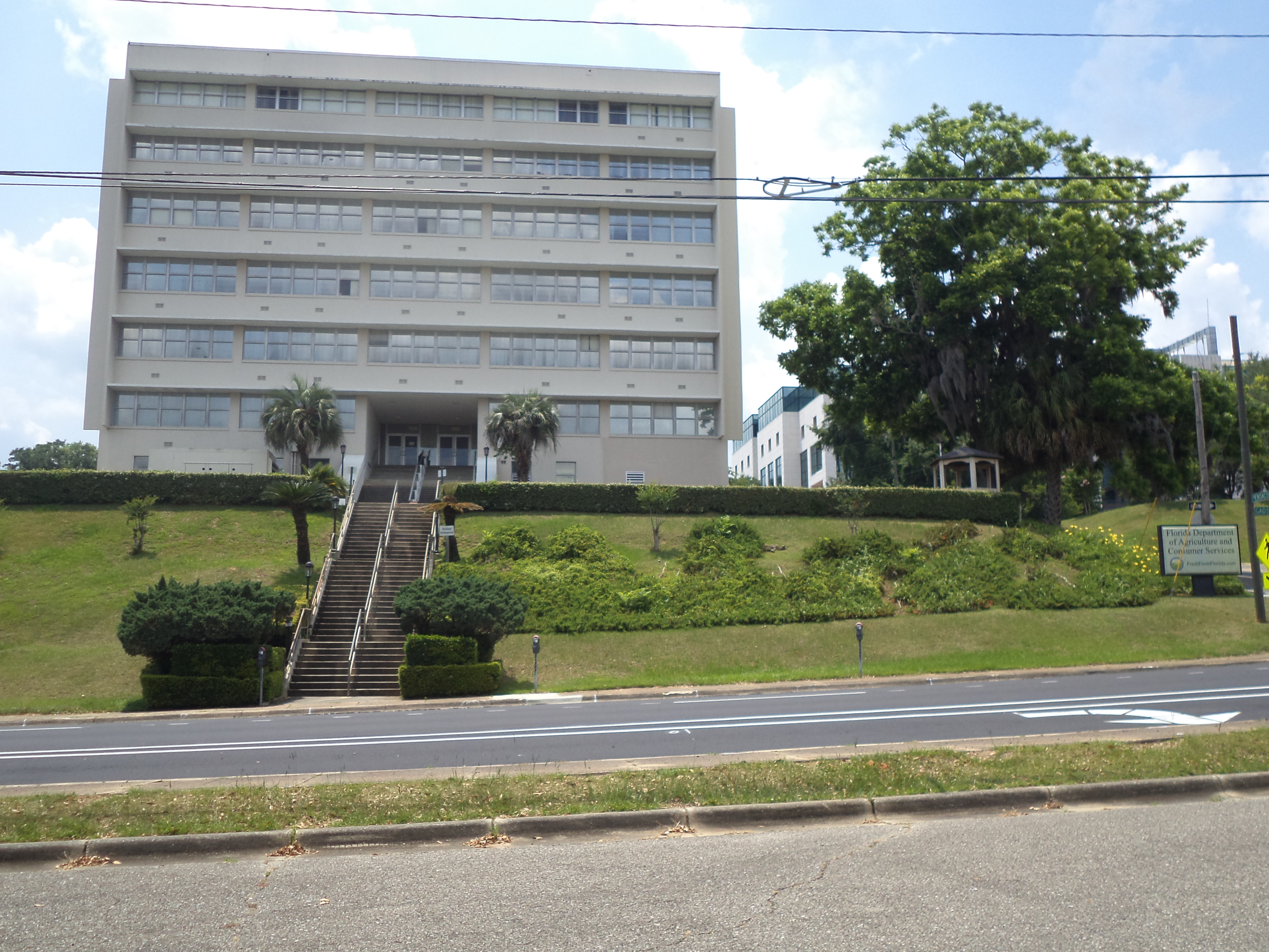 Florida Department of Agriculture and Consumer Services, S Gadsden St, Tallahassee, Leon County, Florida